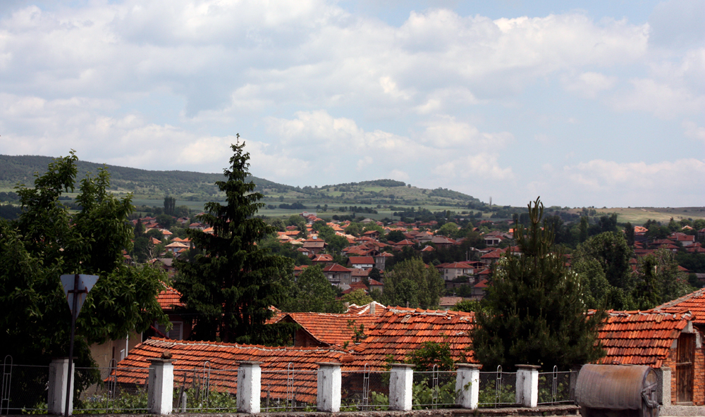 View of Popintsi from the road Pazardzhik - Panagyurishte